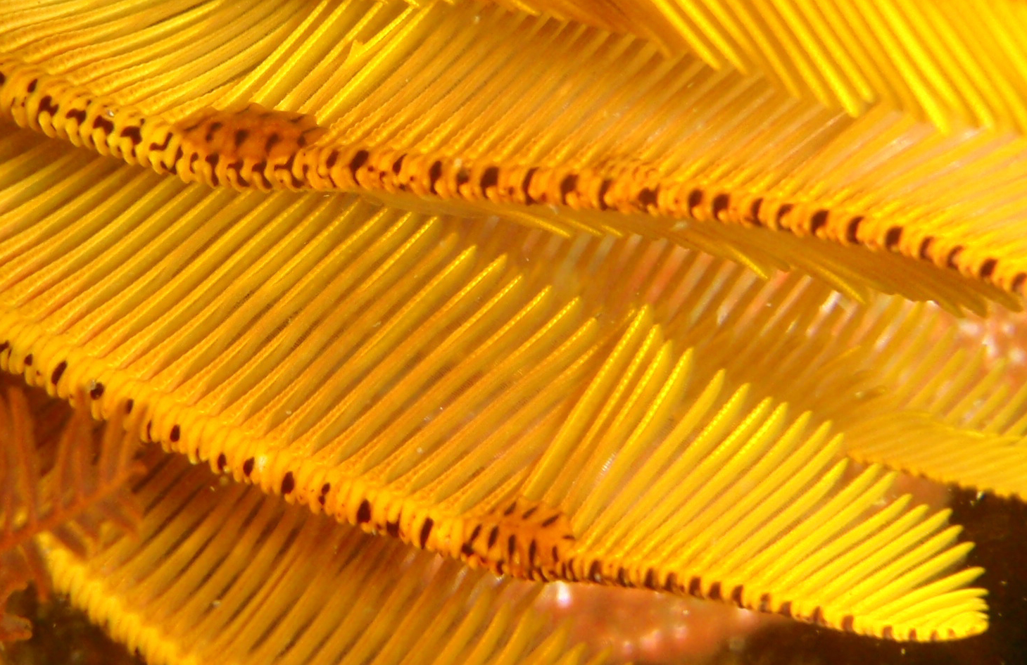 Myzostoma fuscomaculatum on the crinoid Tropiometra carinata at Percy's Hole, near Rooi-els, Western Cape, South Africa.